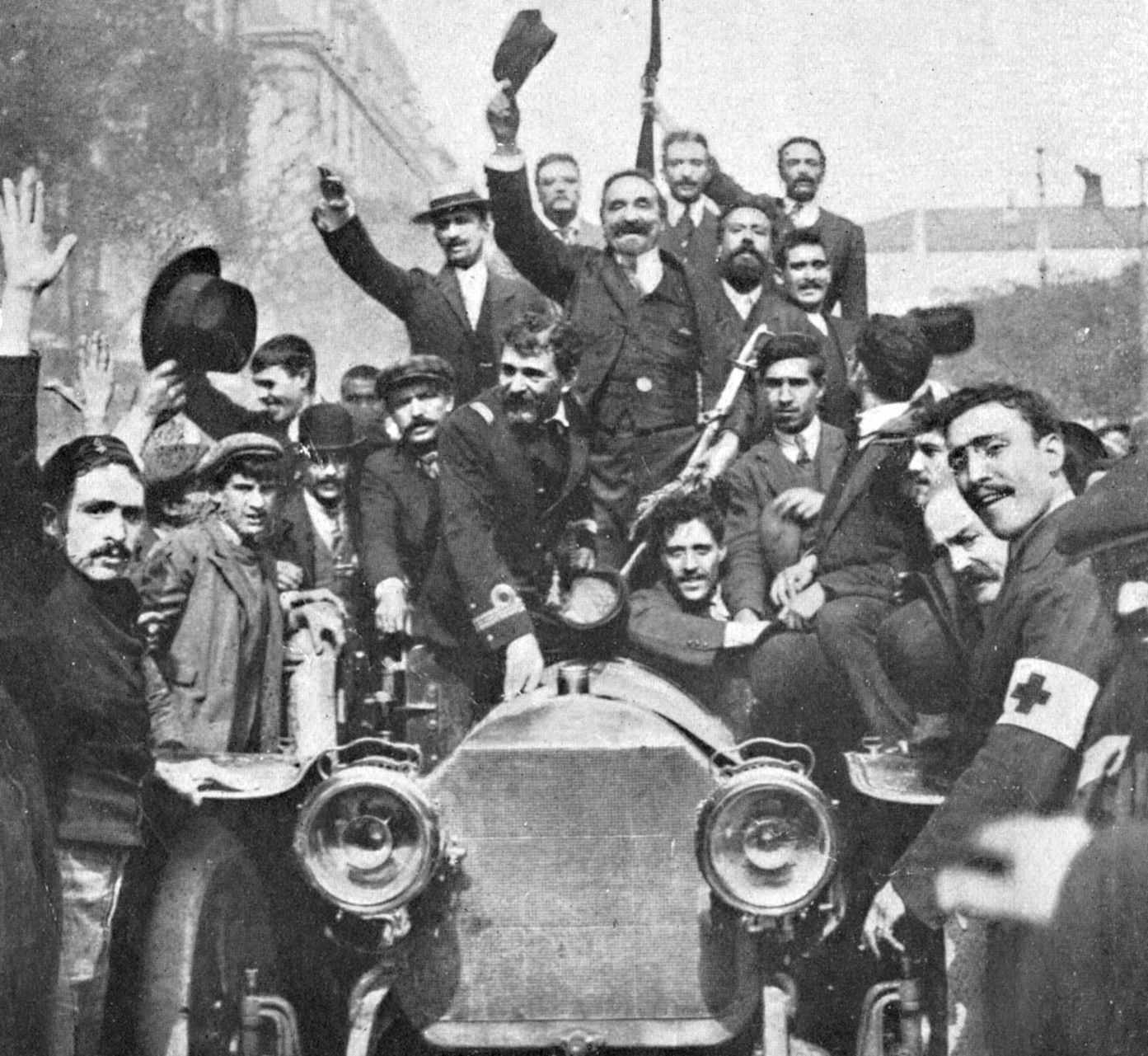 The rebels on the street Liberdade (Lisbon) October 5, 1910